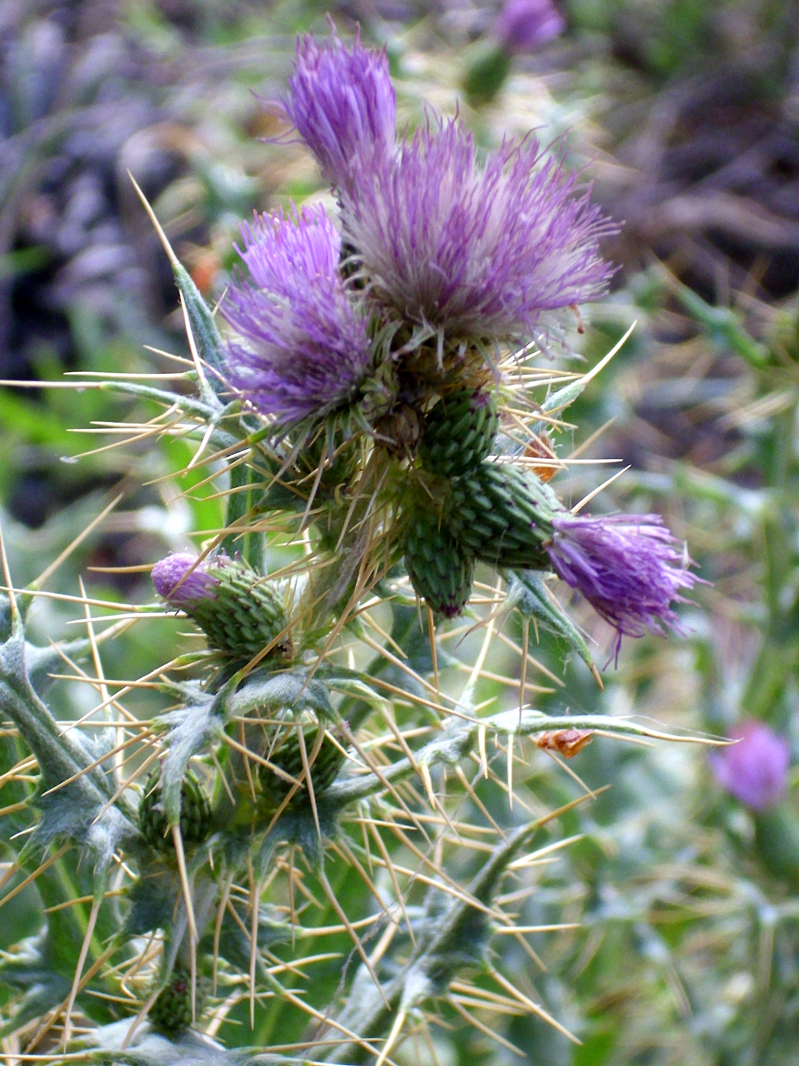 Cirsium pyrenaicum close up, Sierra Nevada, Spain